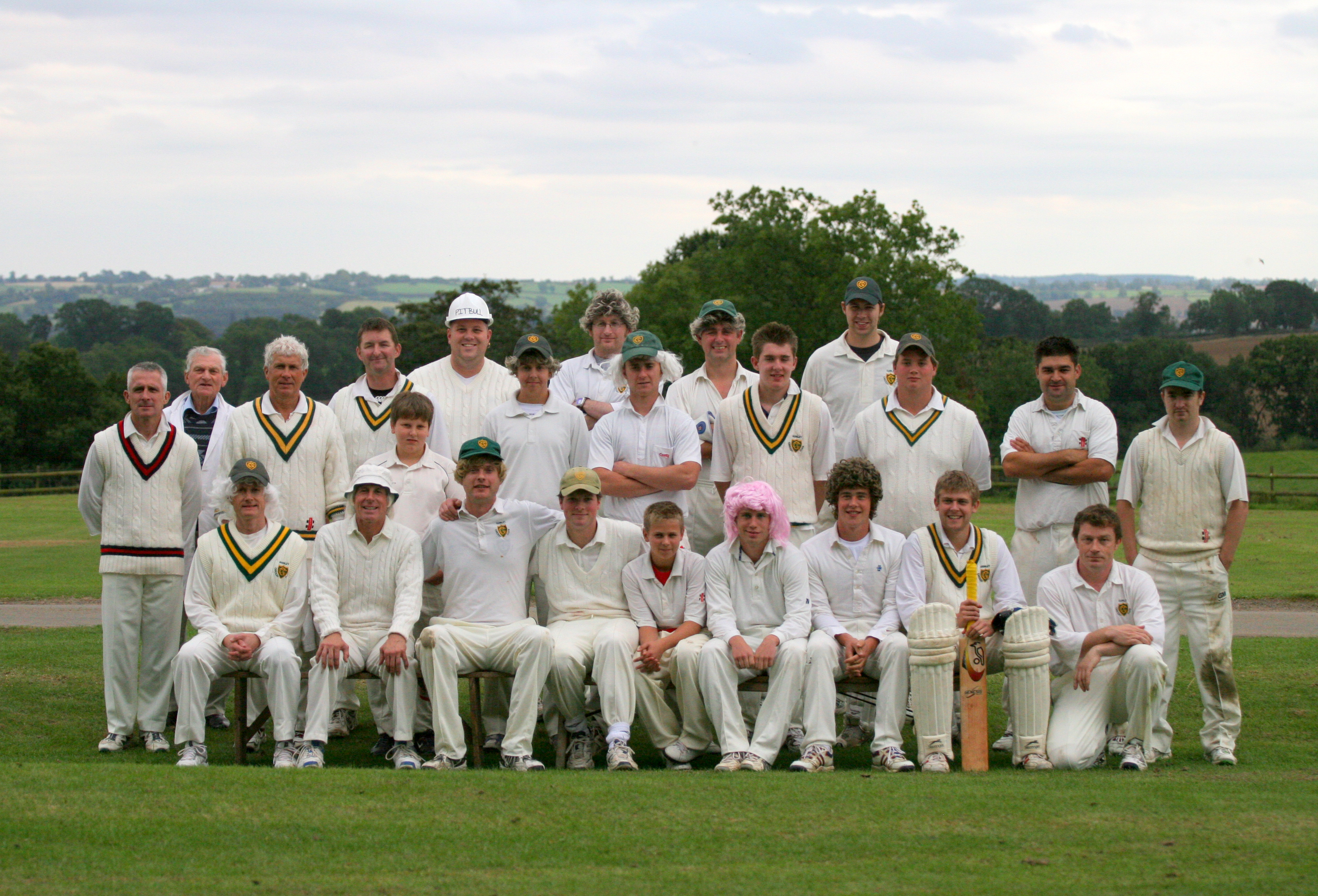 Gumley Cricket Club Day 2007 - some end of season fun.